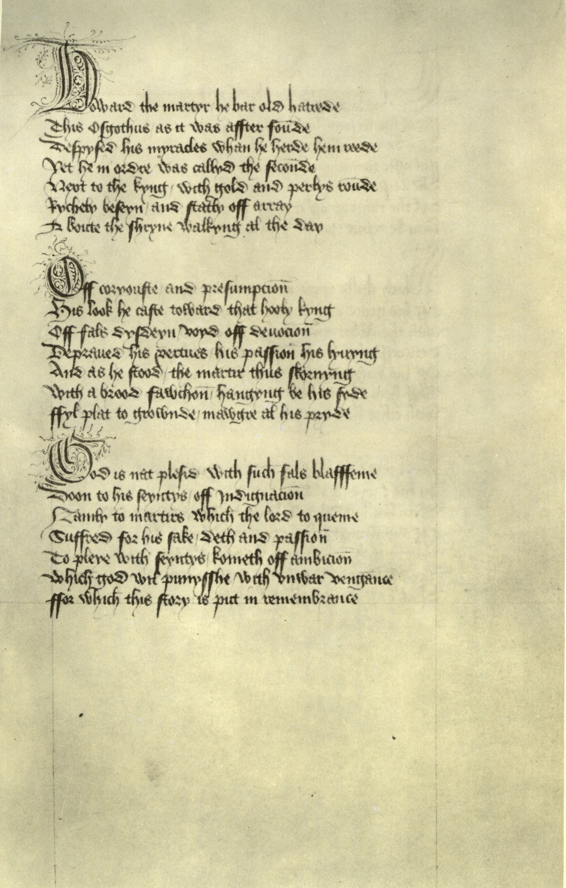 John Lydgate, Verse Life of St Edmund. Script: English Bastarda. London, British Library, Harley 2278, fol. 111r.